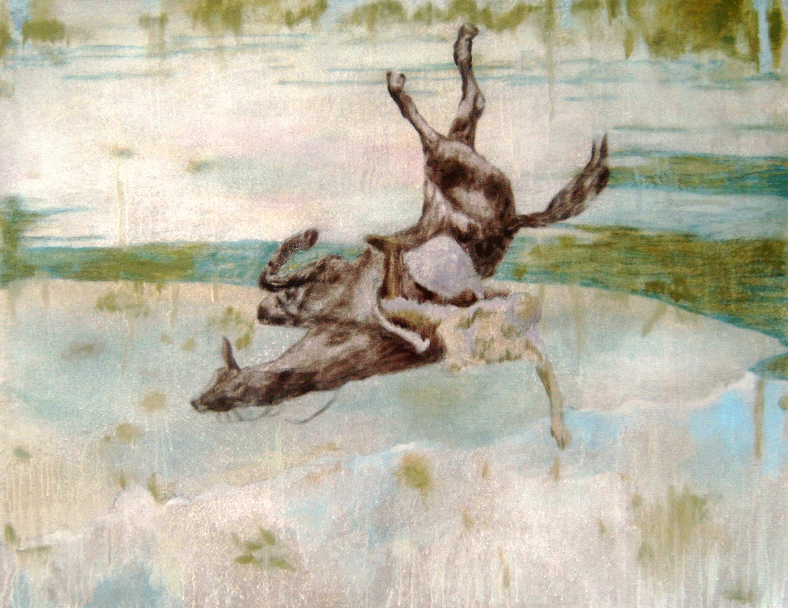 risiko, 155 x 200 cm, 2005